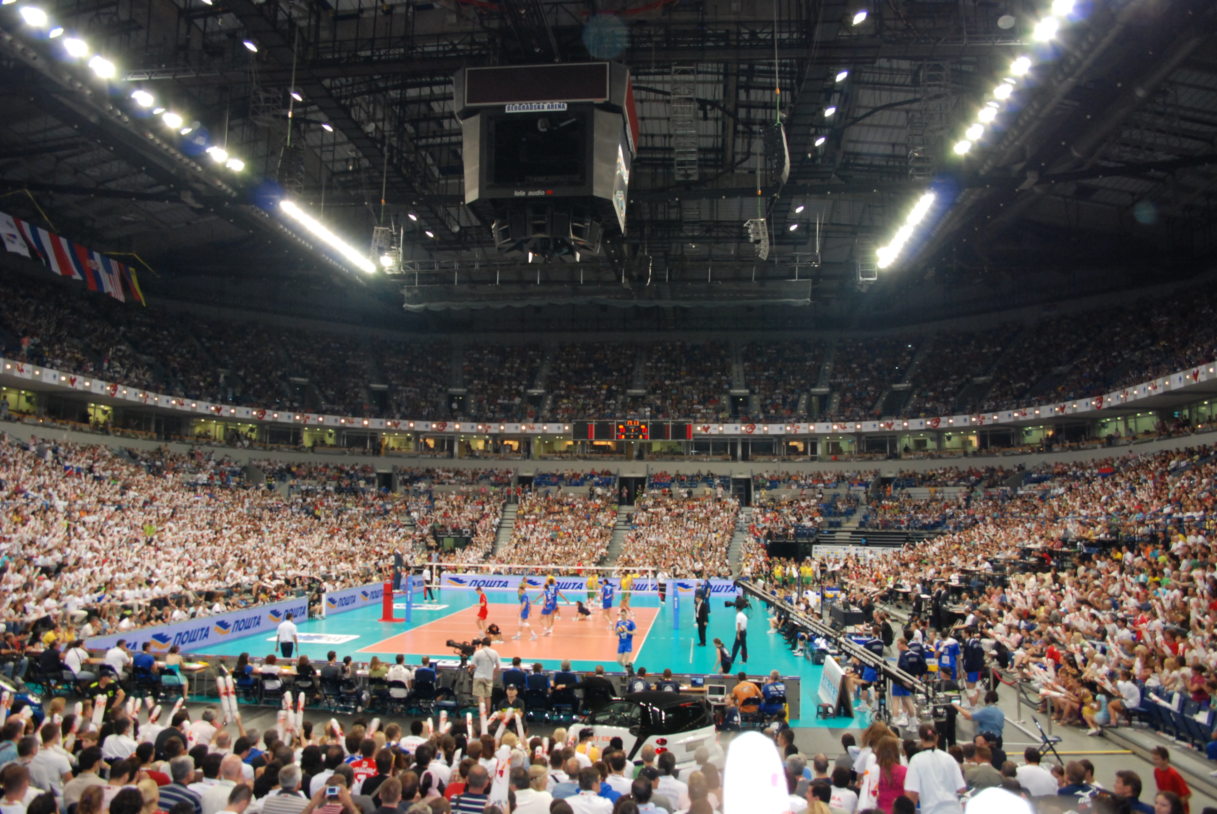 Brasil-Serbia World League Final, 22 680 spectators